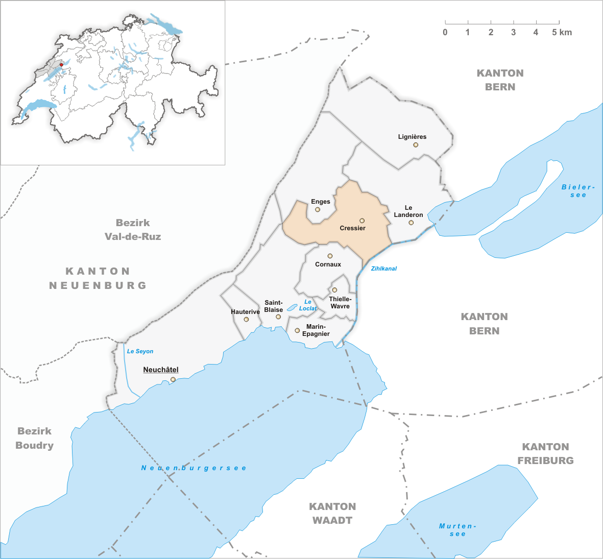 Municipality Cressier